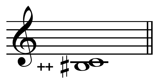 Schisma on C = B♯++ (Ben Johnston's notation). 32805:32768 = 1.9537 cents. Limit: 5-limit.